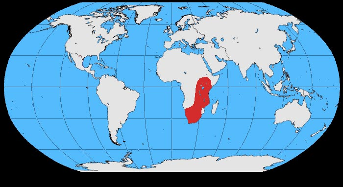 This picture shows us the distribution area of the Corvus albicollis or "White-necked Raven". It is already on the english Wikipedia, howerver it's not in the Commons, so editors from other nation can't use it unless they upload it onto their own national Wikipedia.